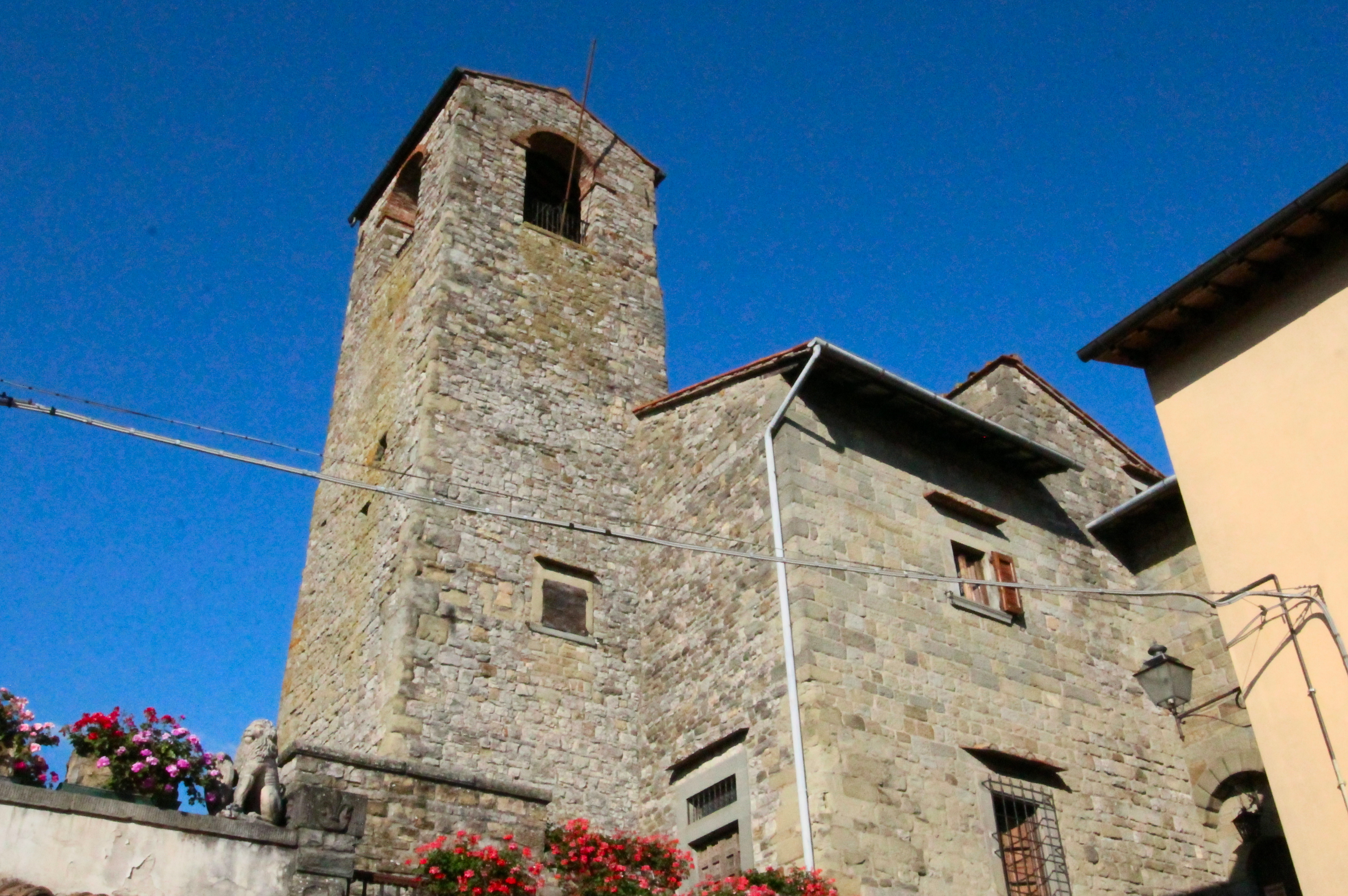 Castle Castello di Borgo alla Collina, Borgo alla Collina, hamlet of Castel San Niccolò, Casentino, Province of Arezzo, Tuscany, Italy